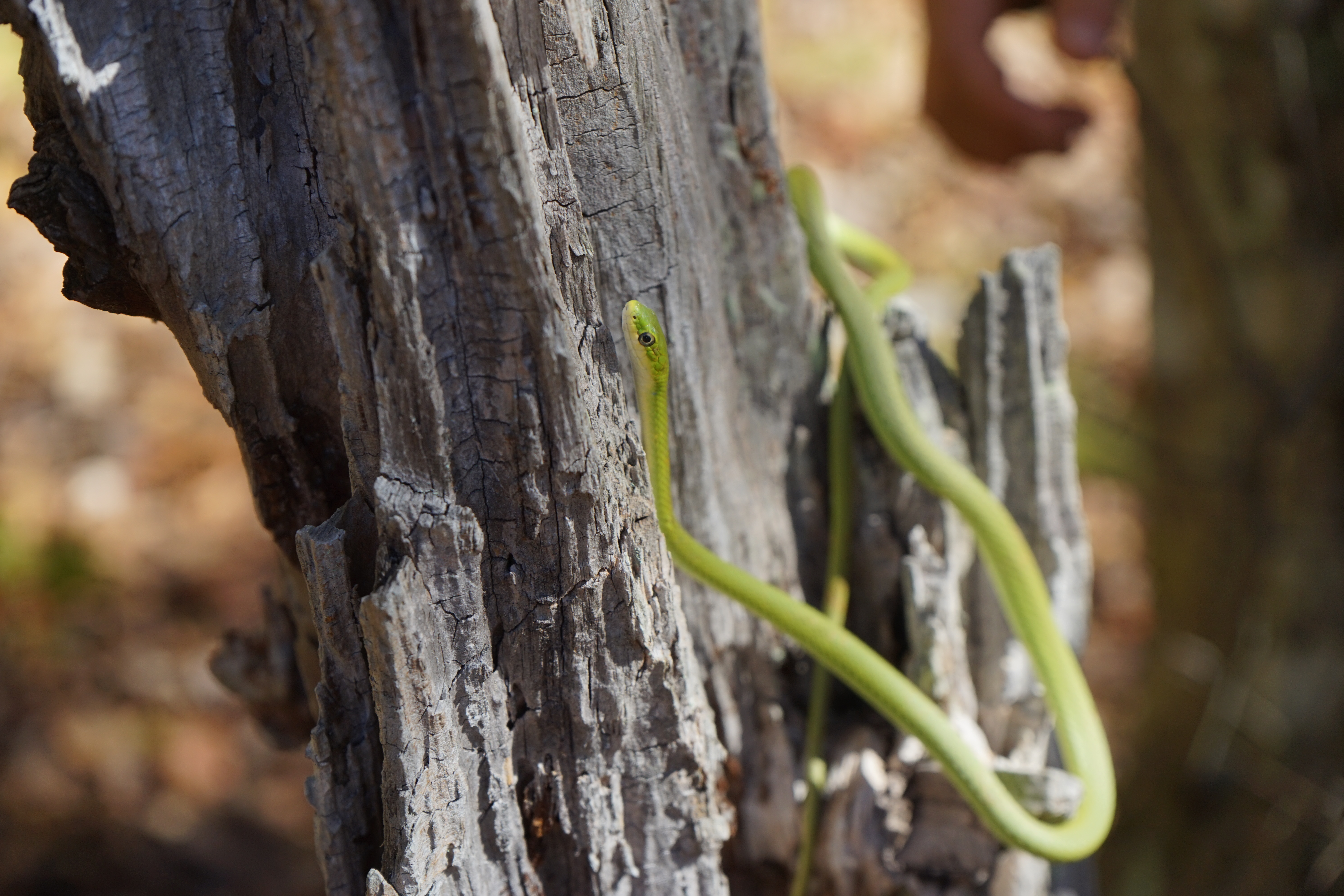 A rough green snake seen at Pocahontas State Park in Virginia.